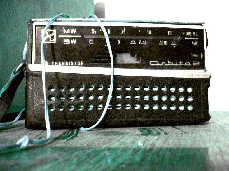 RRR Orbita-2 transistor pocket radio from USSR, 1960s